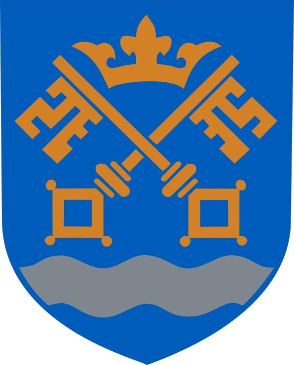 Coat of arms of Naestved Municipality